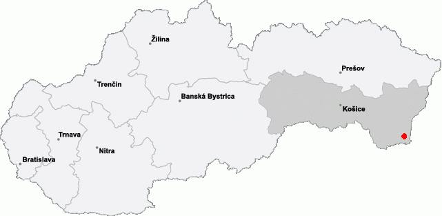 Location of city Cierna n. Tisou in Slovakia